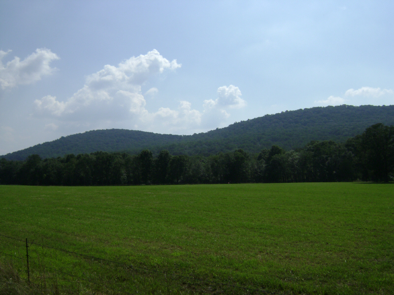 The northeast slope of Cushetunk Mountain viewed from Mountain Road in Readington Township. Image taken by me.